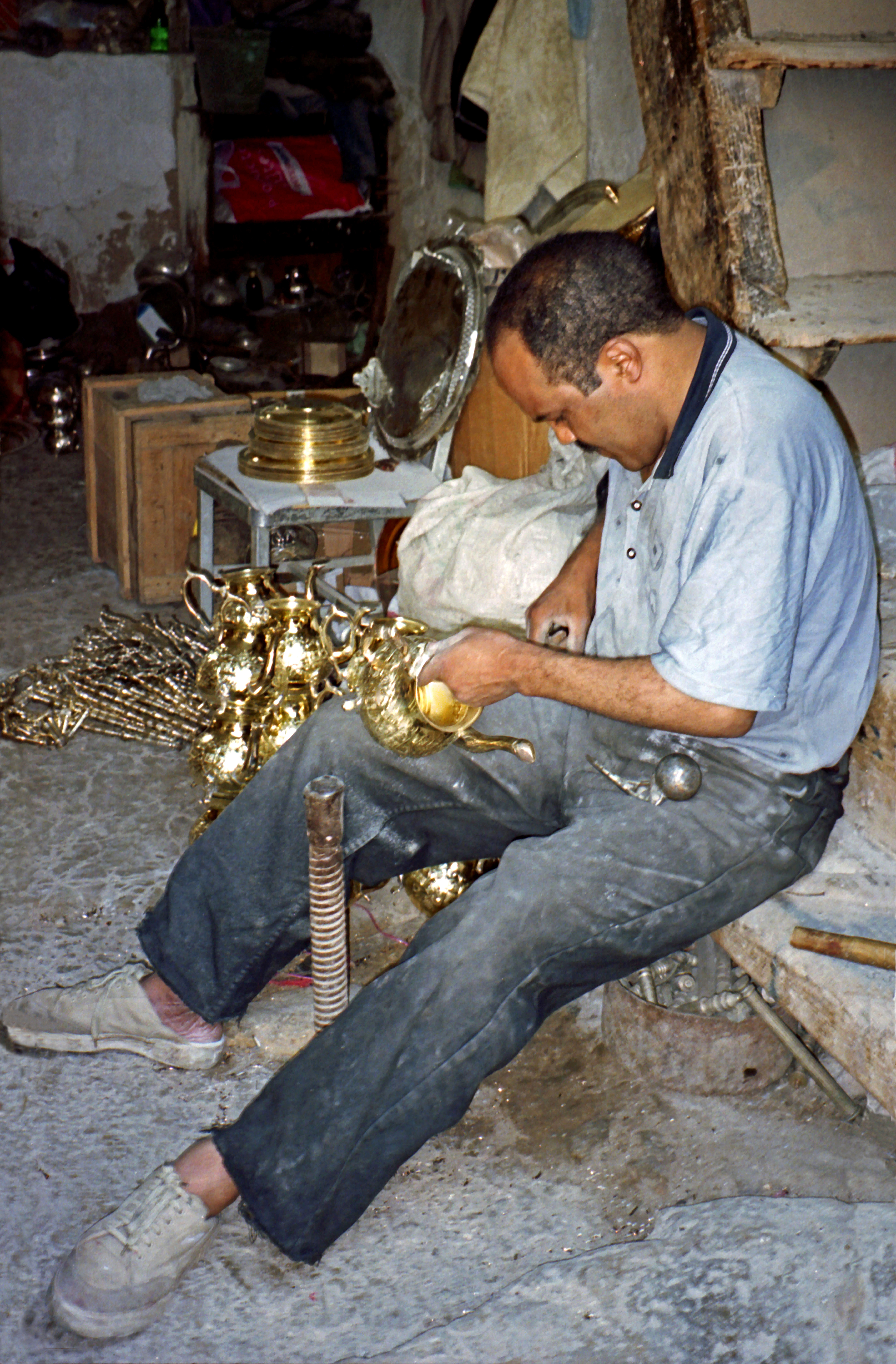 PLEASE, no multi invitations in your comments. DO NOT FEEL YOU HAVE TO COMMENT.Thanks. DO NOT SEND ME E-MAIL REQUESTING ME TO LOOK AT A PICTURE, I RETURN ALL COMMENTS IF YOU COMMENT. This is scanned from my film days, not that long ago, 2003. Inside the Fez medina, craftsmen can be seen creating wonderful objects for sale by using the simplest of tools. Fez, Morocco Fes-al-Bali, the largest medina of Fes, is a nearly intact medieval city. With a 2002 population of 156,000, it is probably the largest contiguous motor vehicle free area in the world today.